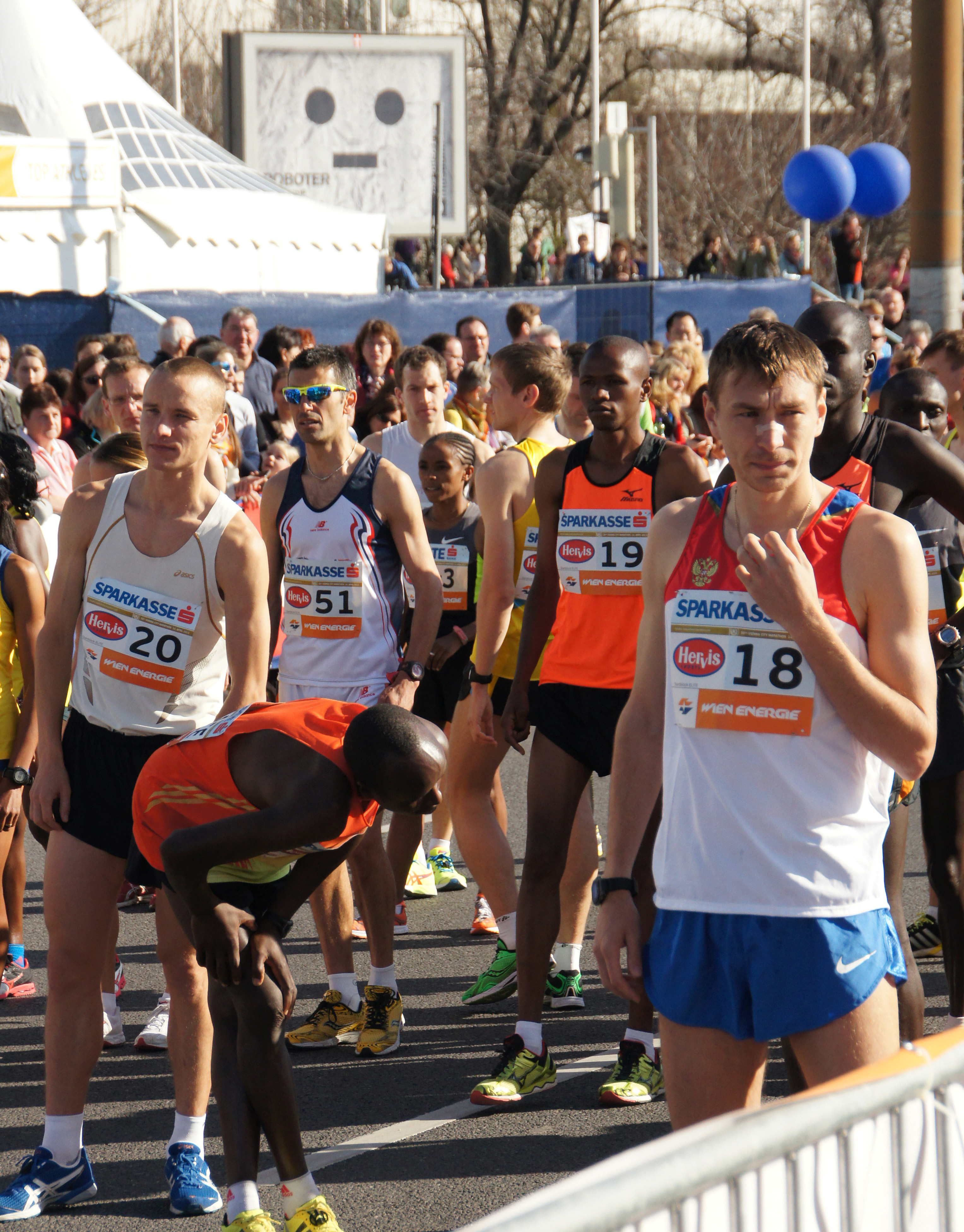 Vienna 2013-04-14 Vienna City Marathon - 20 Valerijs Zolnerovics, LTU, 51 Daniele Caimmi, ITA, 19 Vince Kiplagat-Mitei, KEN, 18 Oleg Marusin, RUS